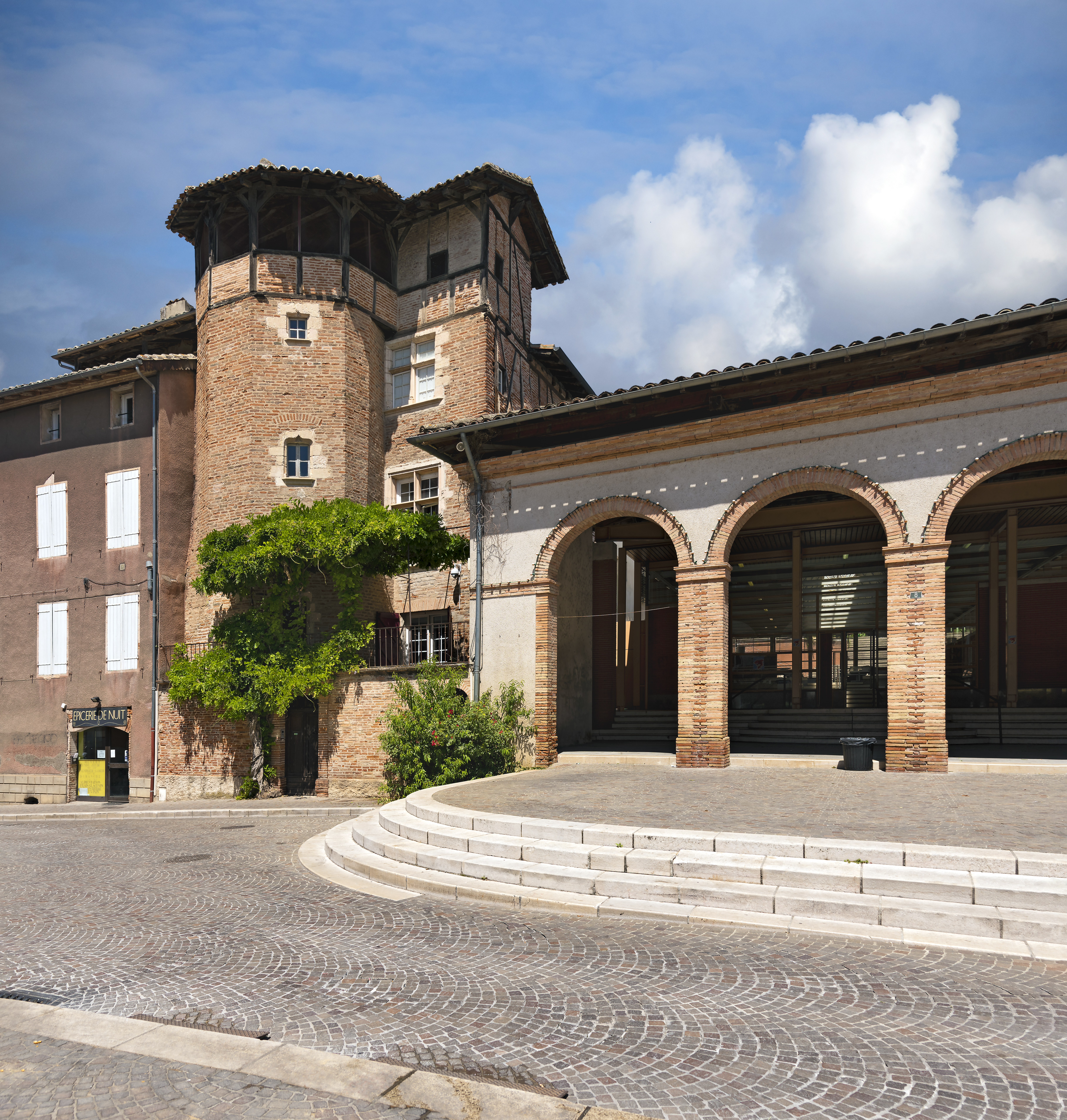 19th century covered market and 16th century half-timbered house, Place du Griffoul Gaillac